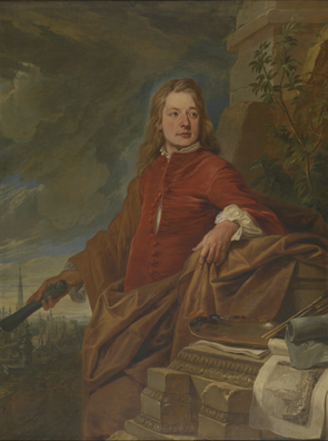 Painting of the Brussels' artist Augustin Coppens (1668-1740), now in the Fine Arts Museum of Brussels